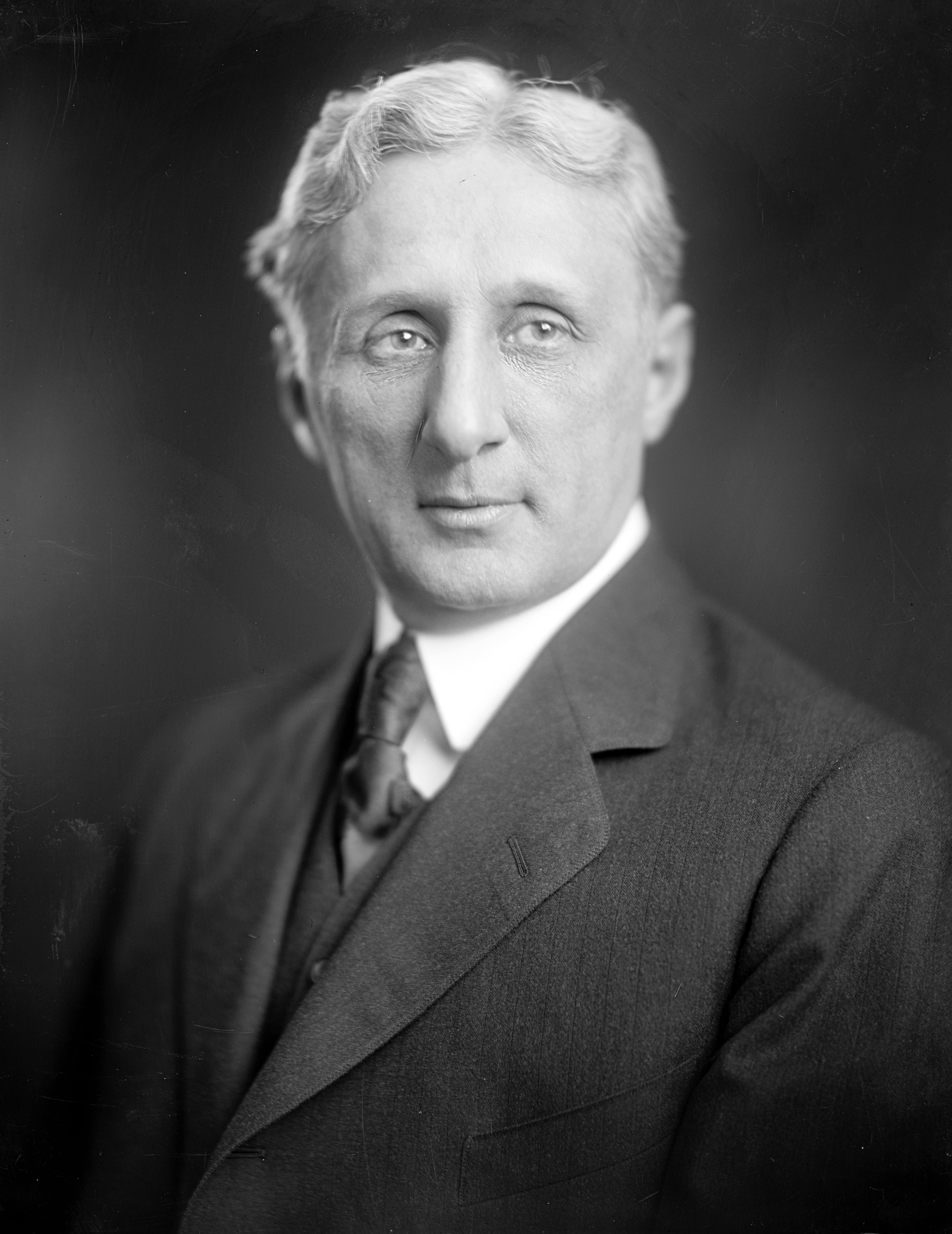 Bruce Foster Sterling, US Representative from Pennsylvania